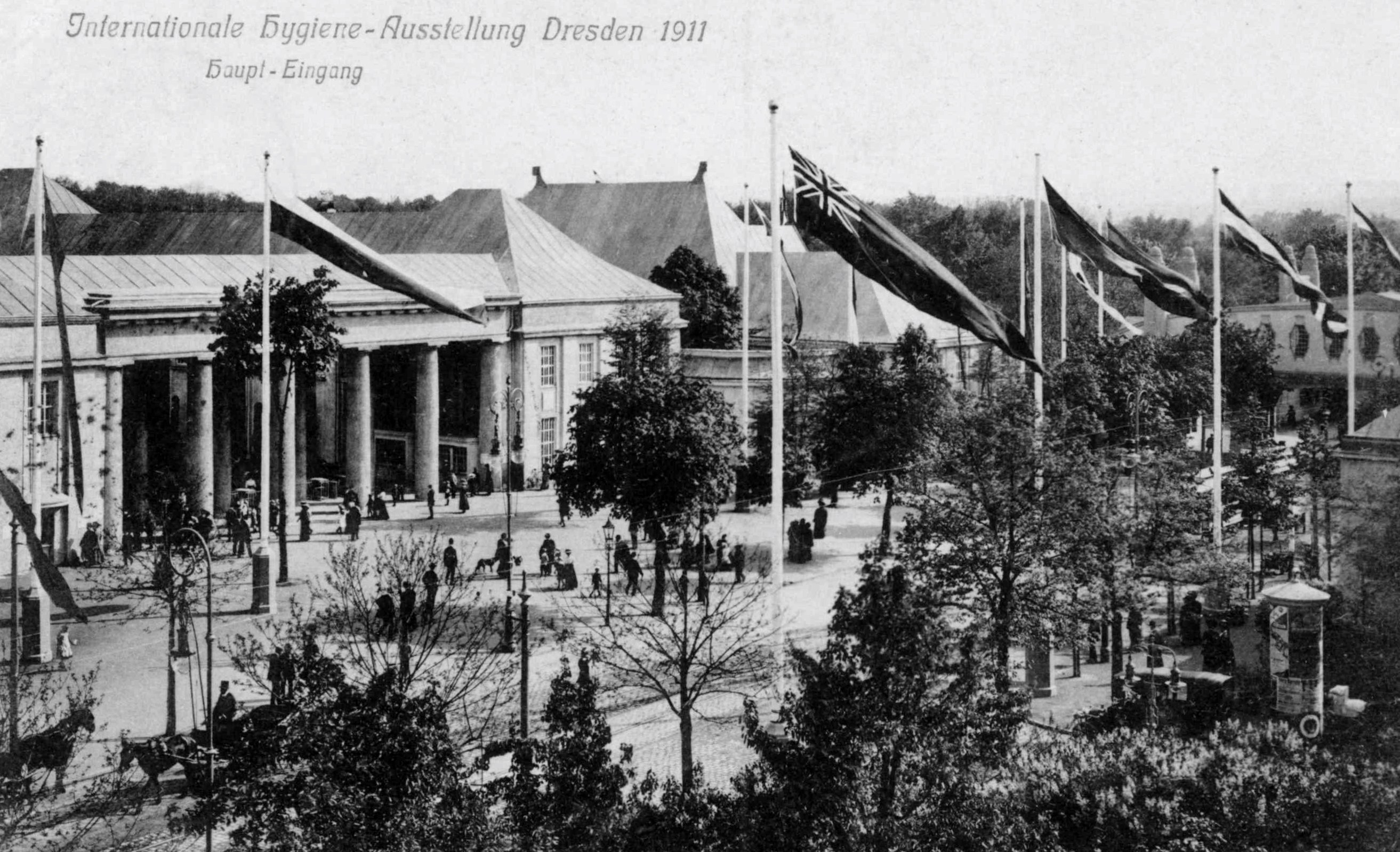 International Hygiene Exhibition Dresden 1911 (main entrance).